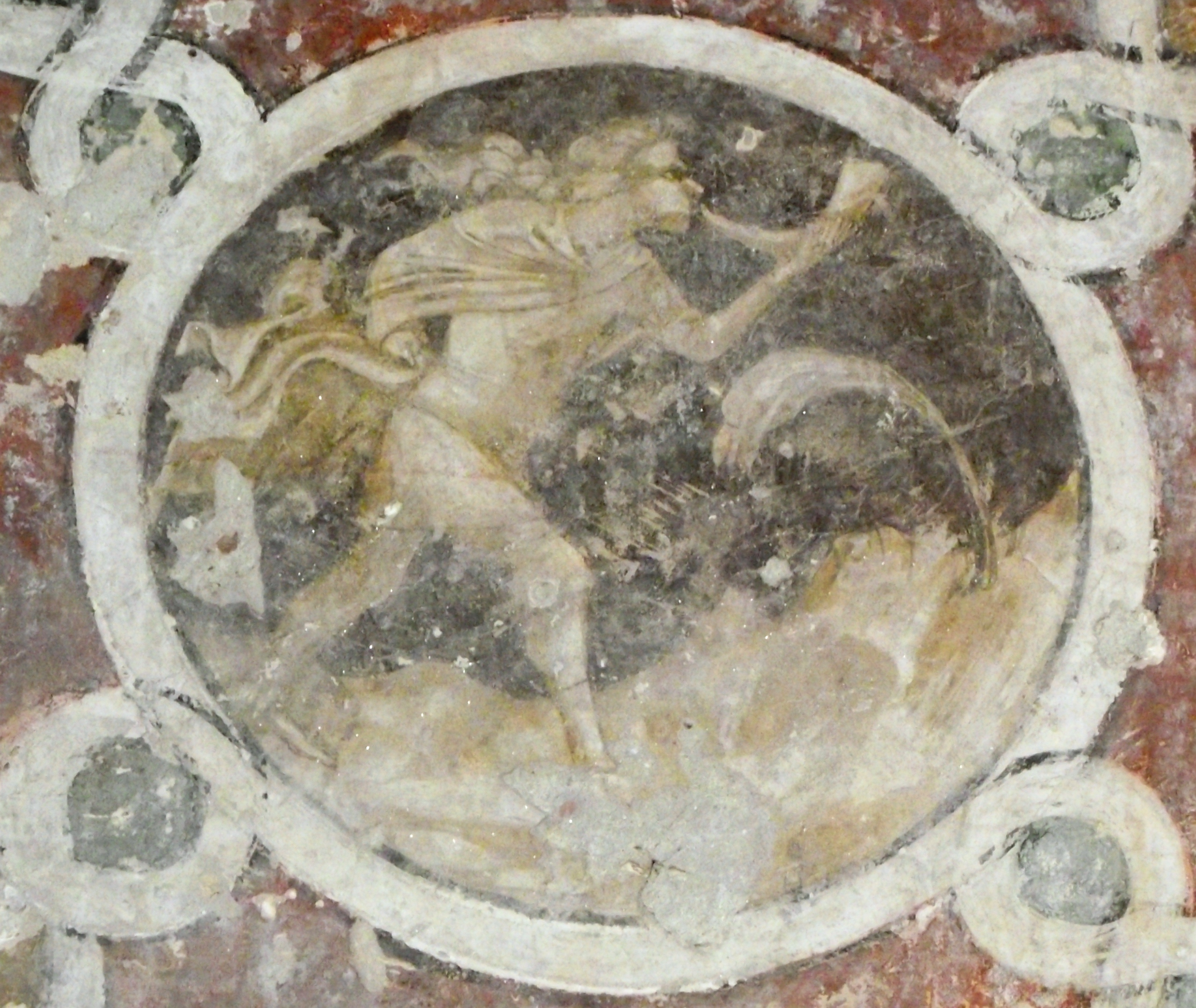 Stefano da Ferrara, March, Sala degli Stemmi, Casa Minerbi - Del Sale, Ferrara